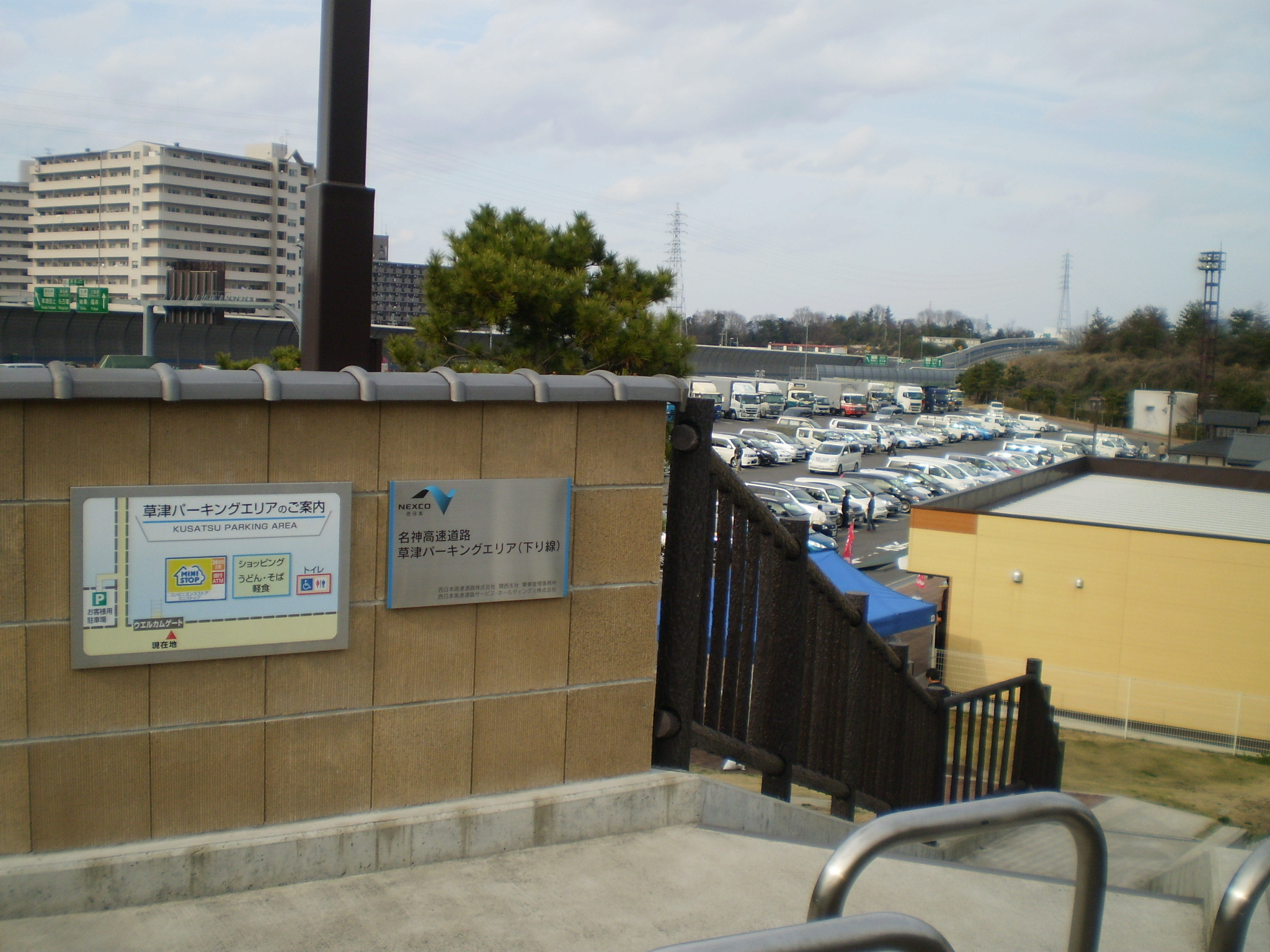 Kusatsu Parking area of Meishin Expressway.（Welcome gate） I took this image at Kasayama-6chome Kusatsu City Shiga Pref., Japan.